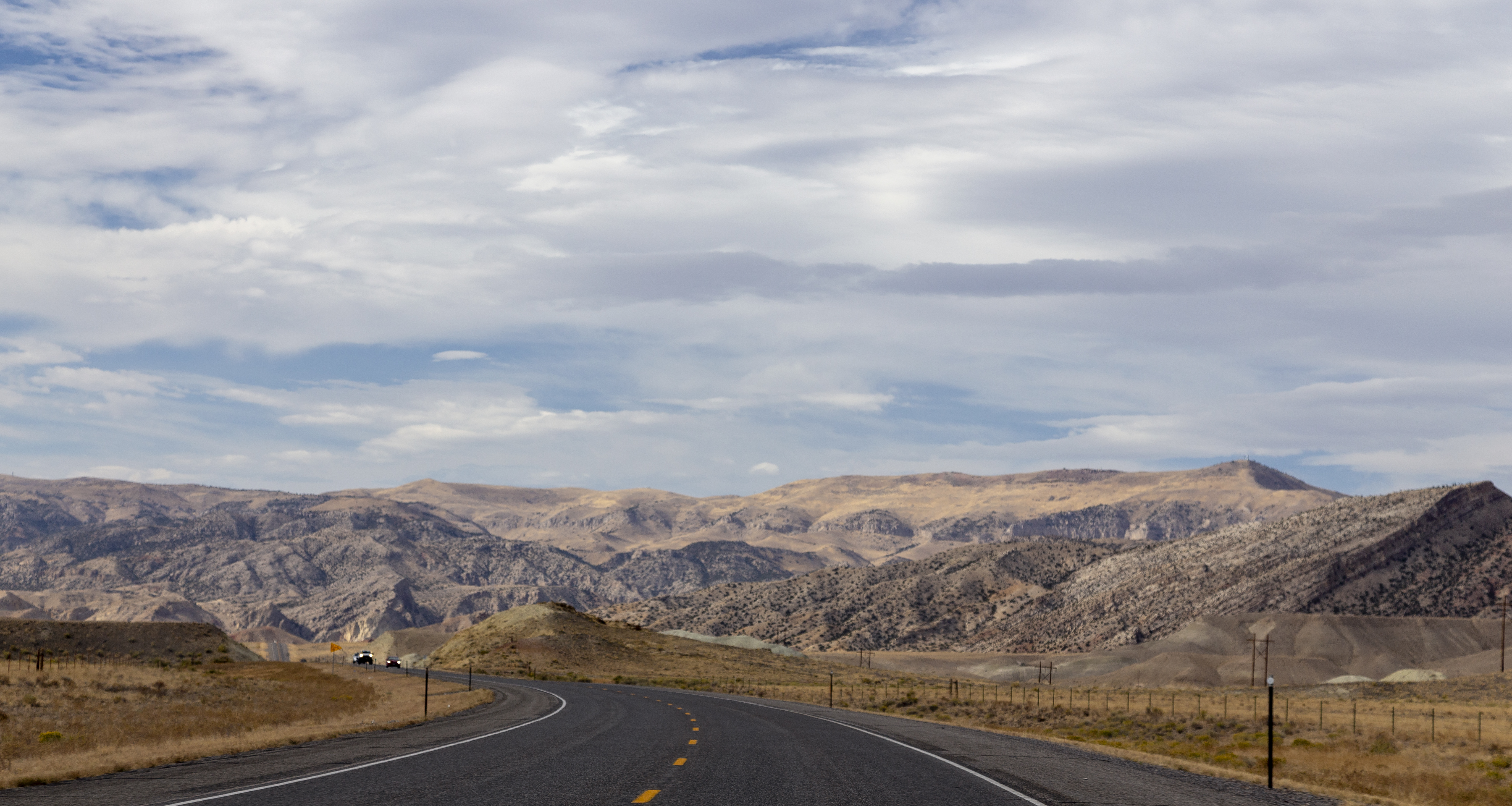 US 20 northbound and the Owl Creek Mountains near the north end of the Wind River Canyon, Wyoming, USA